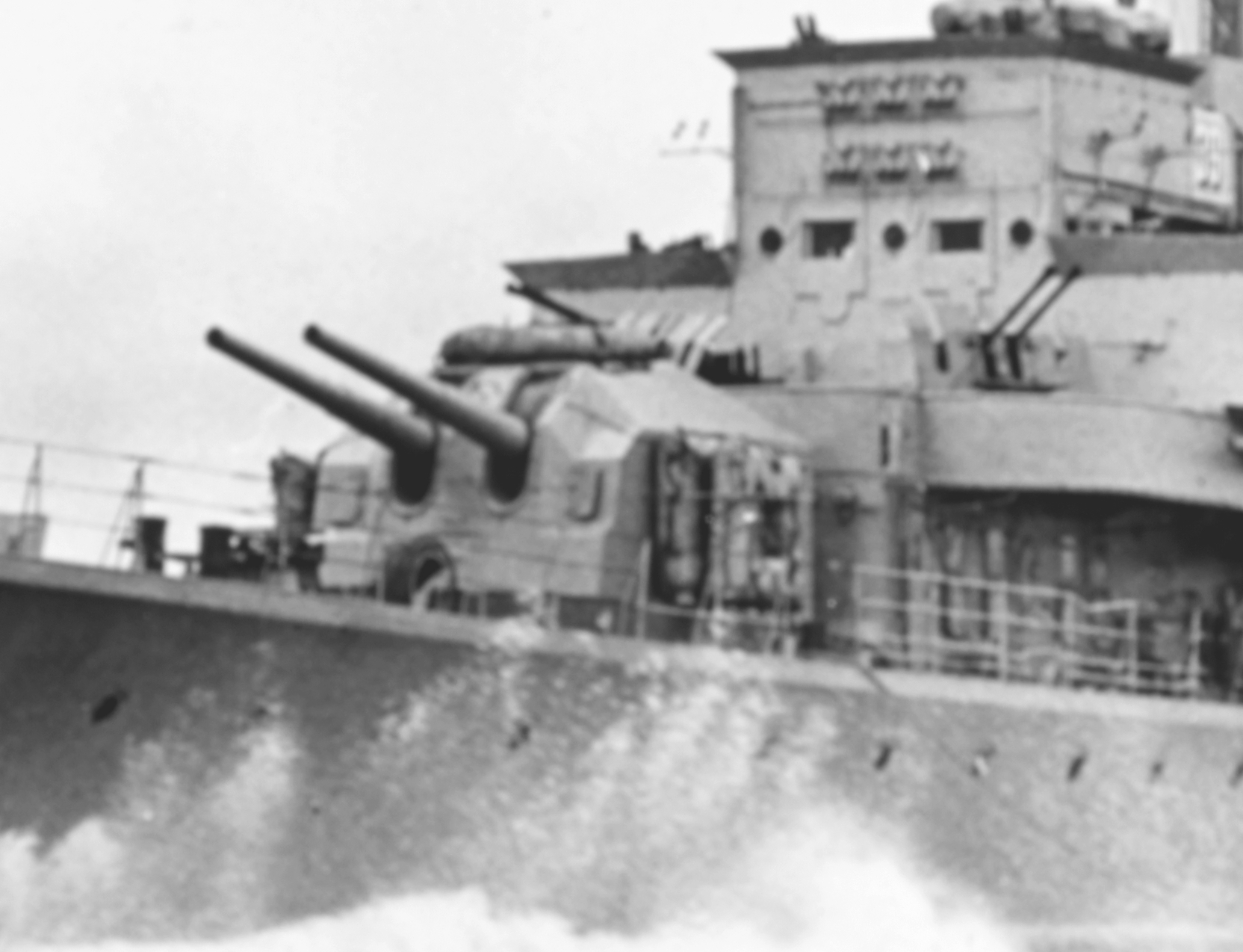 The former German destroyer Z39 underway off Boston, Massachusetts (USA), on 22 August 1945. The U.S. Navy designated the destoyer DD-939. The photograph shows the forward twin 15-cm guns.